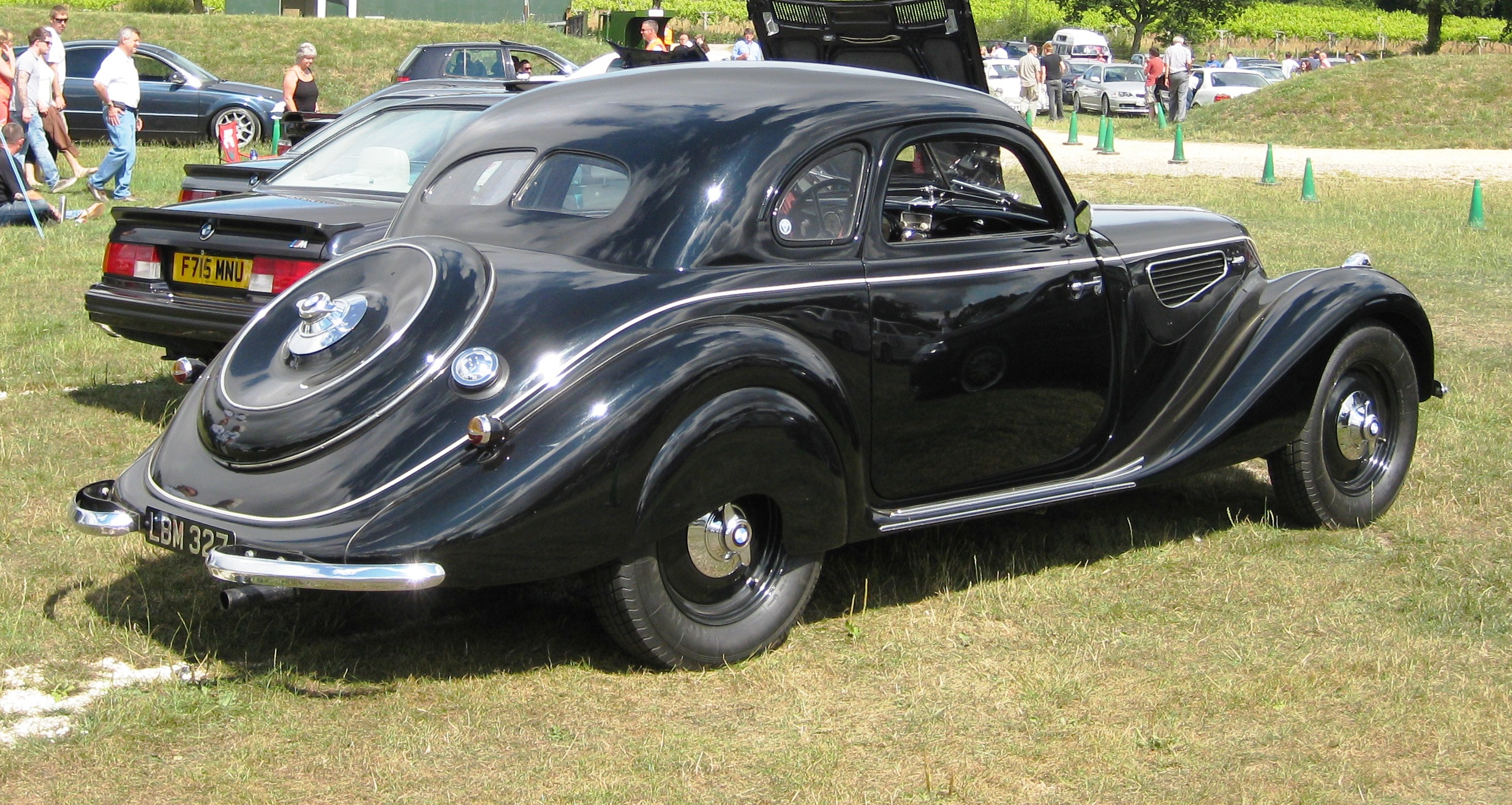 BMW 327 fixed head coupe rear three quarters. Photograph taken at Beaulieu Autofest.